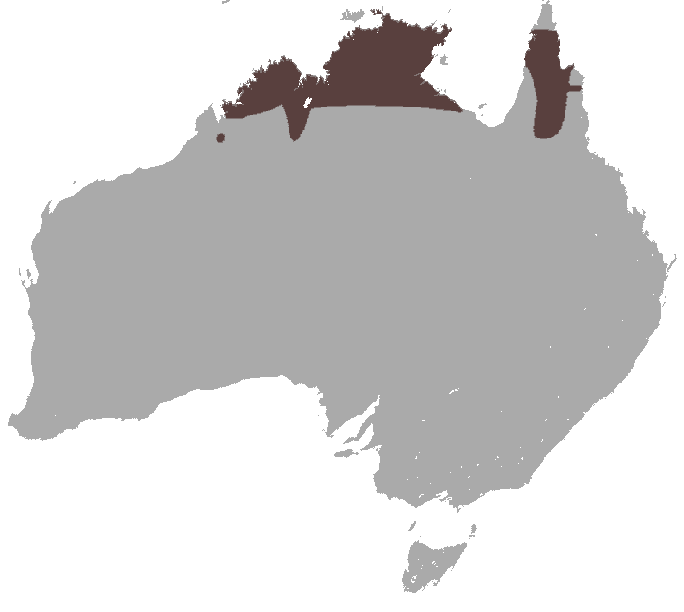 Antilopine Wallaroo (Macropus antilopinus) range